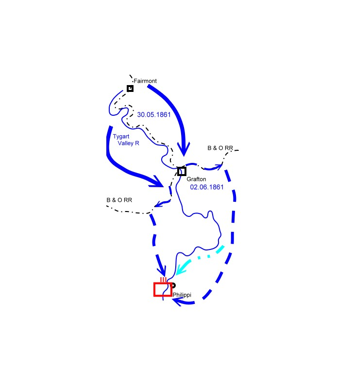 Movements of the Union forces